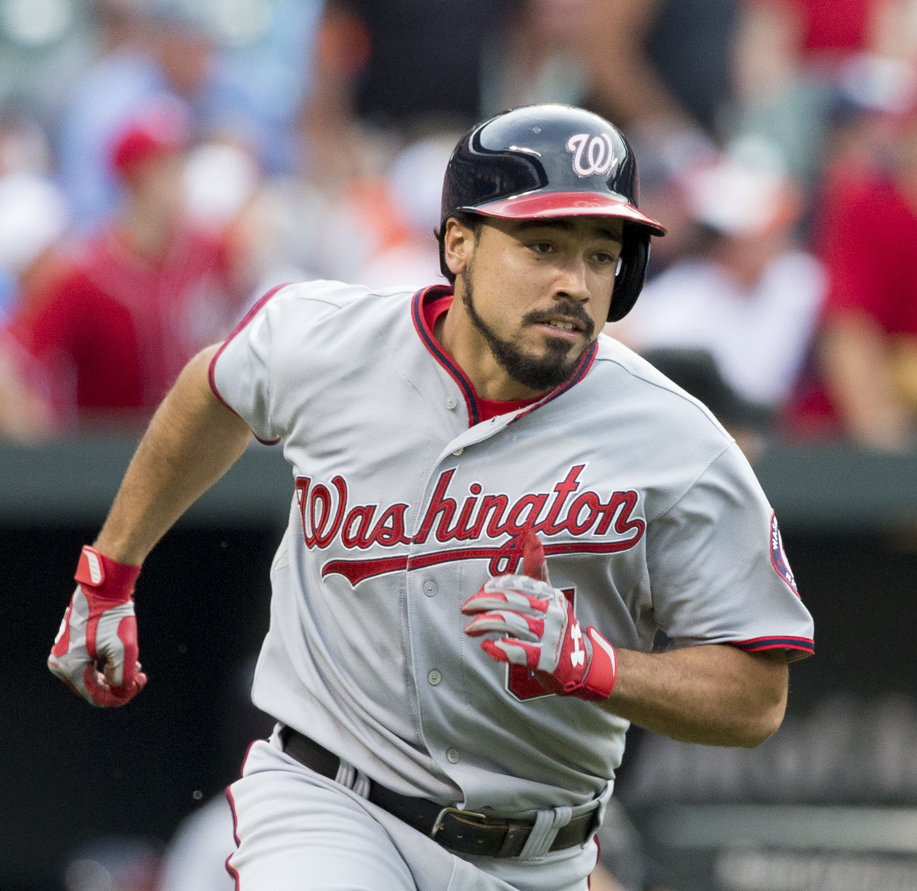 Nationals at Orioles July 9, 2014